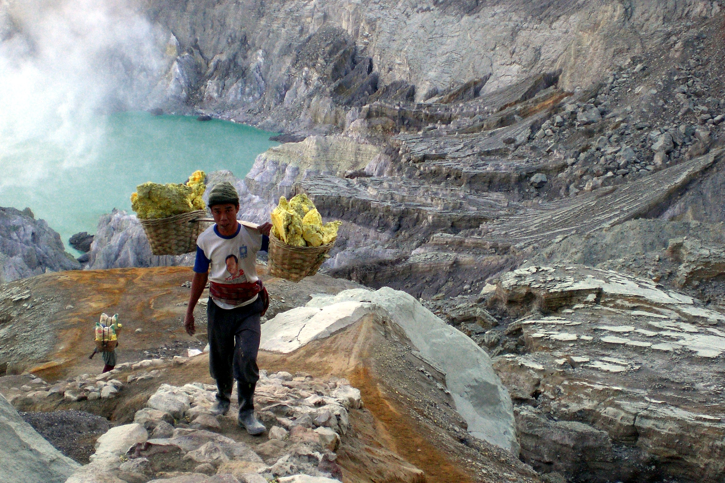 Man carrying sulfur @ Kawah Ijen, Java, Indonesia